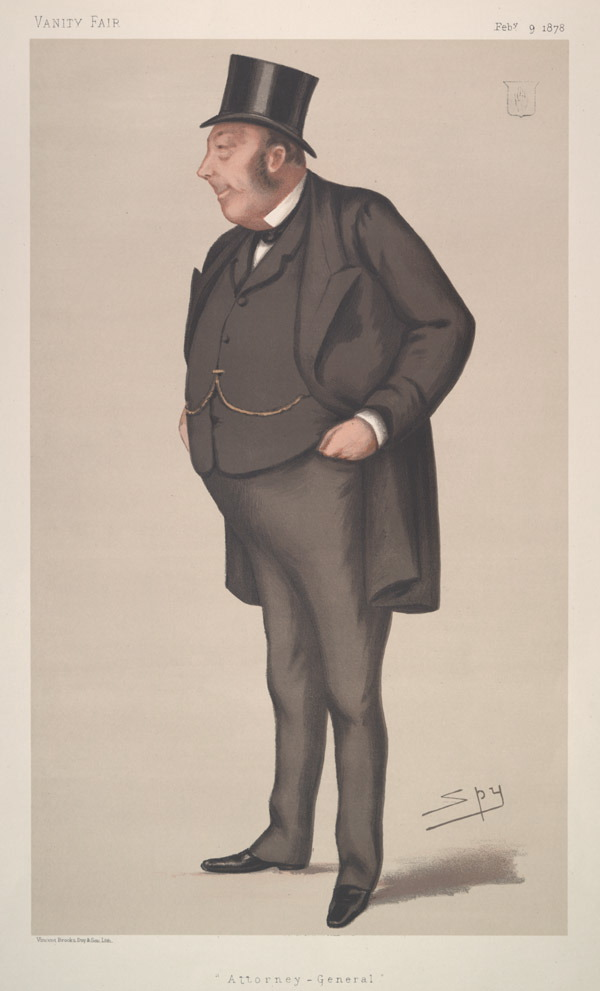 Statesmen No.265: Caricature of Sir John Holker. Caption reads: "Attorney-General"